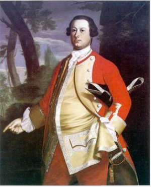 Joshua Winslow By John Singleton Copley